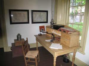 Obtained from with permission of the webmaster and copyright holder.